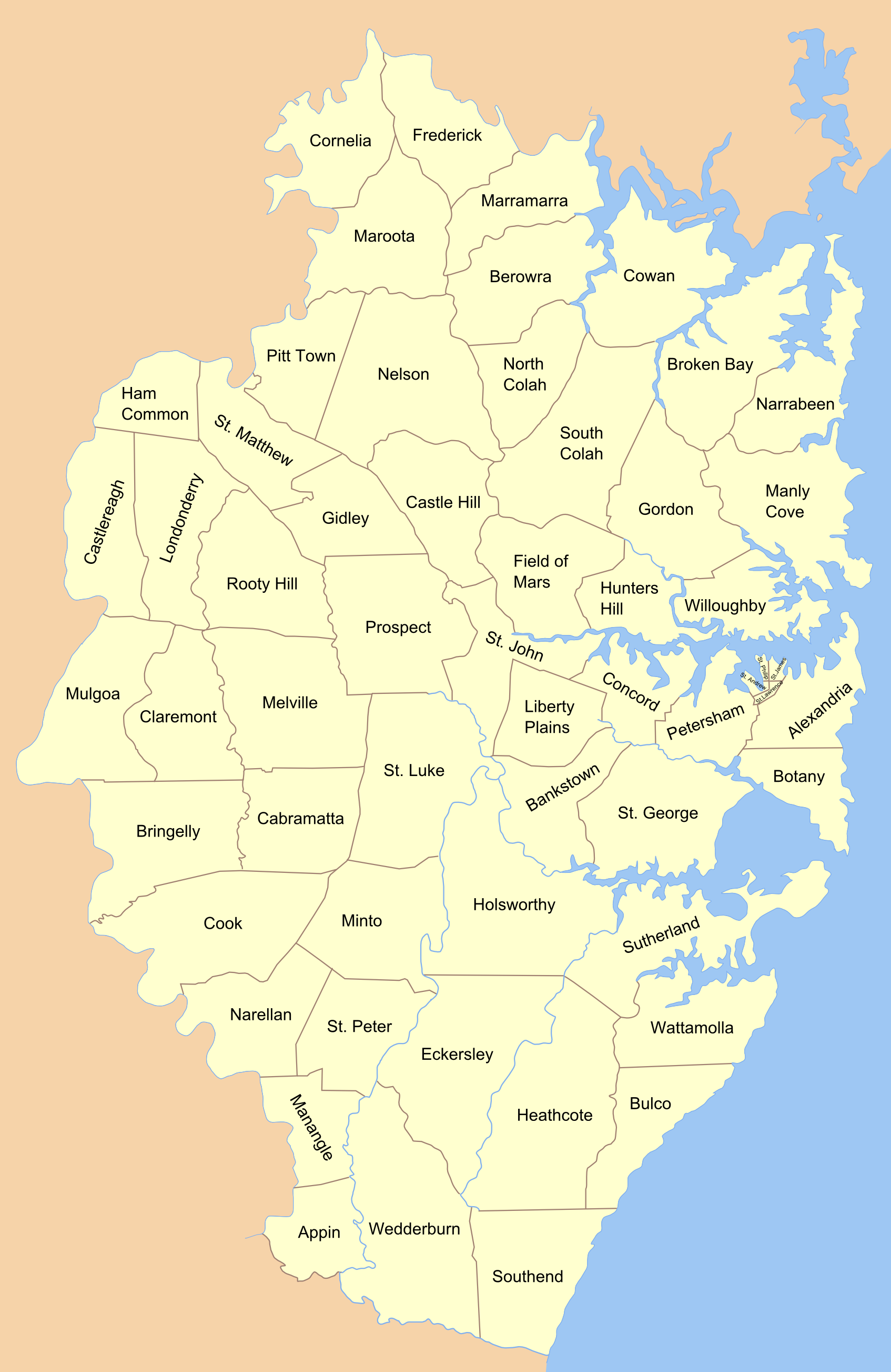 png version of Image:Cumberland County Parishes.svg, (easier to display) Made from old maps in the National Library collection, see [1], [2], [3], and [4].